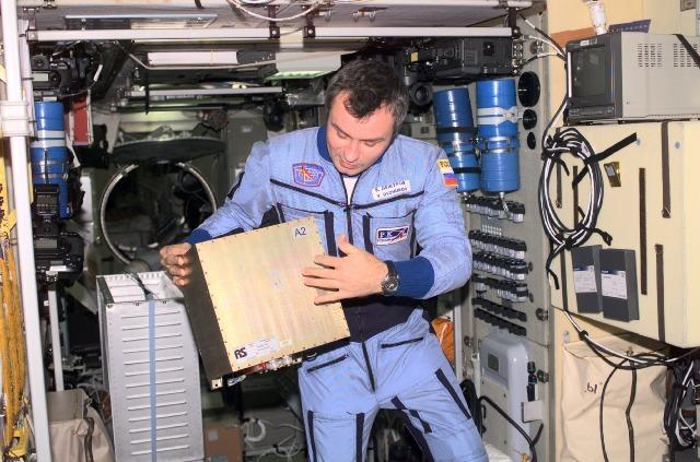 NASA Image: ISS003E5477 - Cosmonaut Vladimir Dezhurov of Rosaviakosmos, Expedition Three flight engineer, holds a Global Time System (GTS) electronics unit in the Zvezda Service Module.